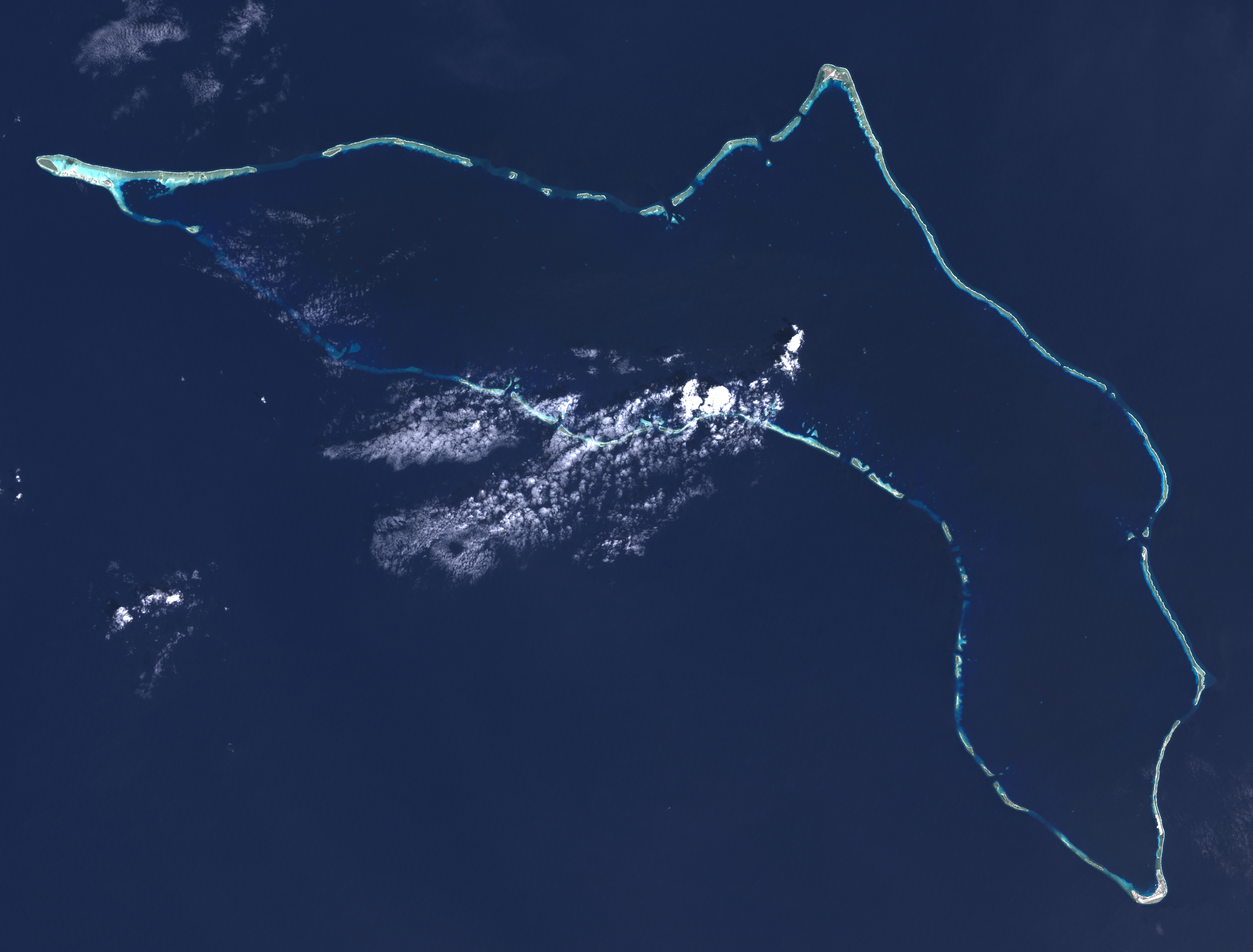 Composite "true color" multispectral satellite image of Kwajalein Atoll, Republic of Marshall Islands. NASA Landsat 7 ETM+ bands used were 3 (red), 2 (green) and 1 (blue), and the image was pan-sharpened to 15m resolution, manually color balanced, and resampled to 30m output resolution. Projection: UTM (zone 58), WGS84. Imagery courtesy NASA/USGS. Much of what appears to be land in this image is actually underwater, you can see the blue tint to those areas. Kwajalein Island is the southernmost island, at the bottom right of the image. This is the center of US operations in the atoll, and the most heavily settled. Directly above it is Ebeye, the main Marshallese settlement in the atoll. A causeway runs north from Ebeye to create a string of connected islands. Some distance to the north of Ebeye, just below the middle of the right side of the image, are three small islands roughly in a triangle. The southeastern one is Meck Island, which holds a major US Army rocket testing facility. Launches are sometimes carried out from Omelek, the next island north of the cluster of three. Roi-Namur island, the second largest in the atoll, forms the northernmost location in the atoll, roughly top-center in the image. It hosts a number of large radars originally set up by ARPA and Lincoln Laboratories, but later turned over to the Army. On the extreme left is Ebadon, formerly the second largest island in the atoll before Roe and Namur were backfilled to turn them into one larger island. This island, along with a few islands to its east, were formerly a major Marshallese settlement, but many of the people moved to be closer to the US installations. The long string of islands between Ebadon and Kwajalein are relatively scarcely settled. Illegini, just east of due south of Roi-Namur, roughly the mid-point of the chain, used to be used for missile testing in conjunction with Meck, but now is used only for remote radar and camera systems.